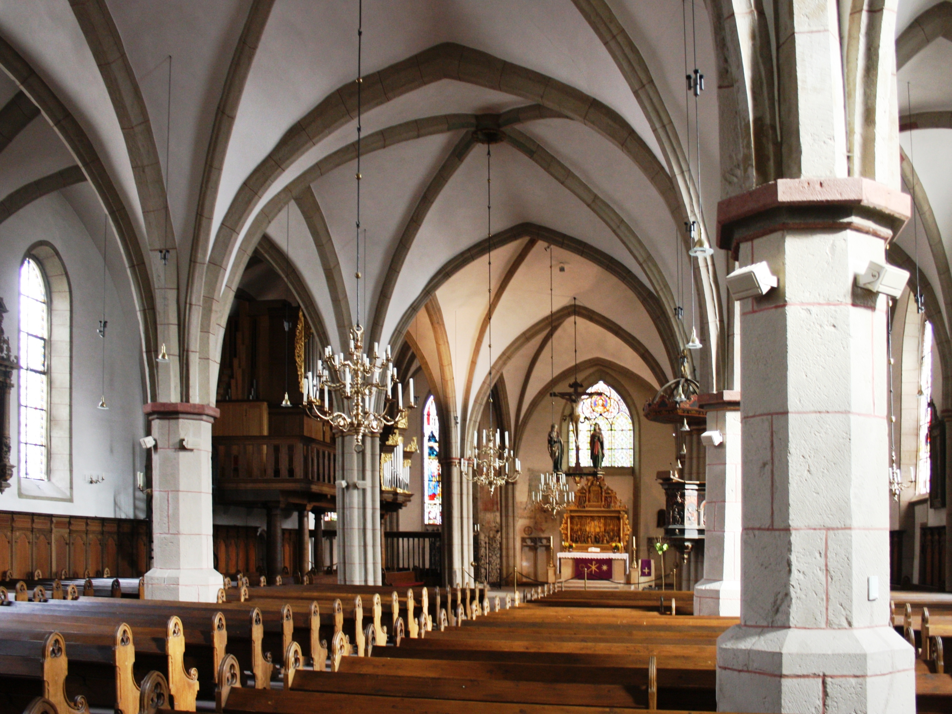 Saint Martin in Stadthagen, Germany. Nave towards East.